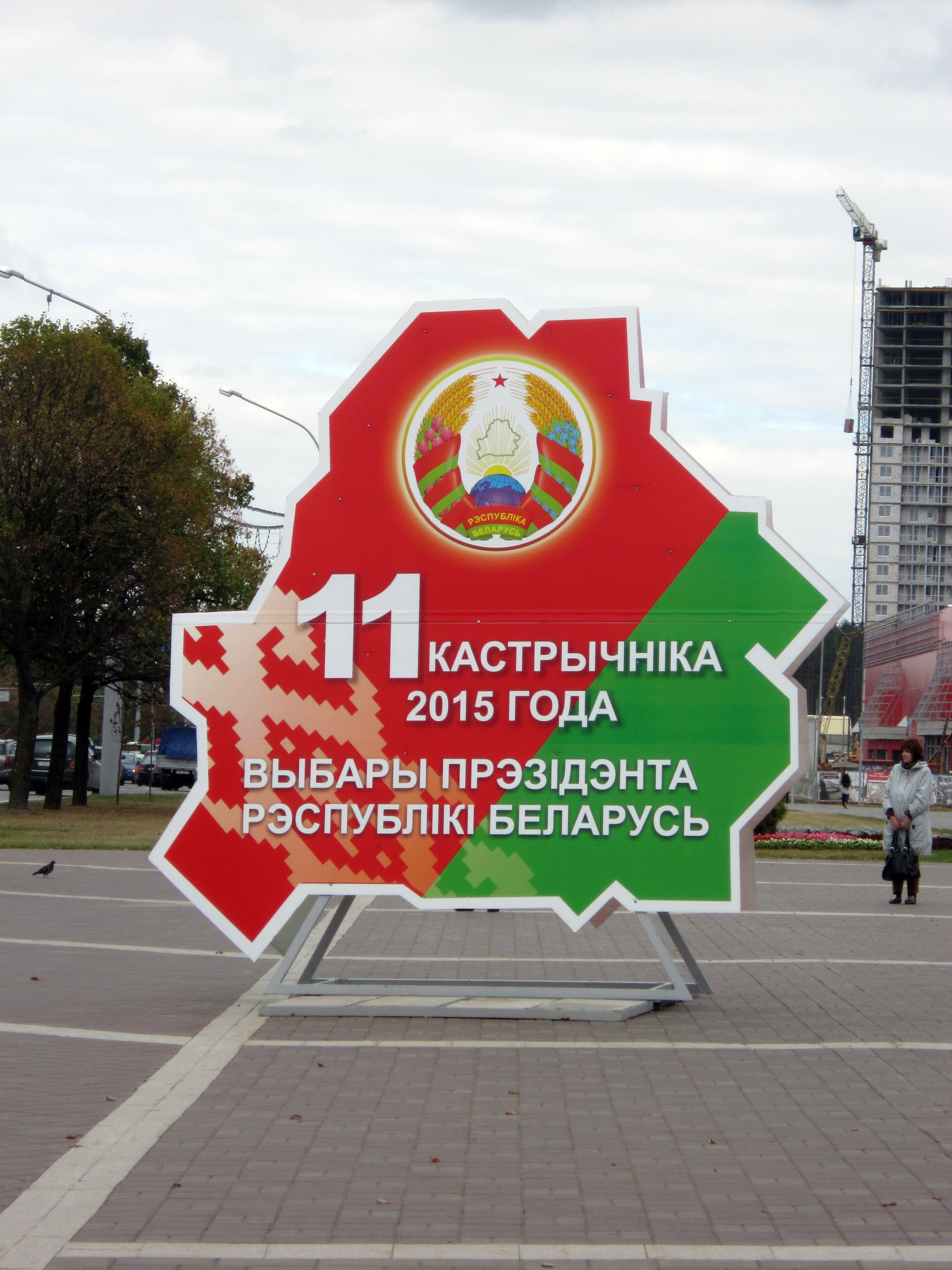 Belarusian presidential election banner (street stand). The text is "11 October 2015 — Election of the president of the Republic of Belarus" (in Belarusian)